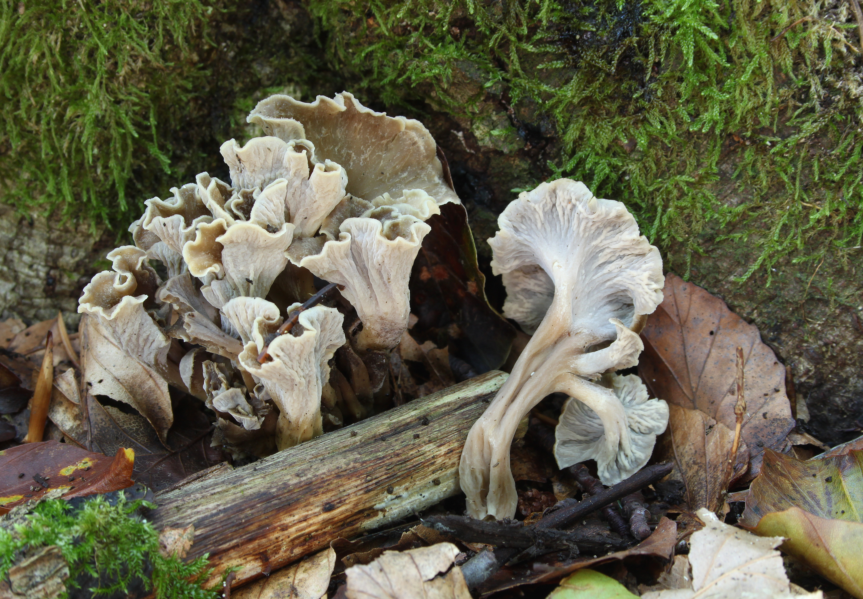 Pseudocraterellus undulatus syn. Craterellus sinuosus, Family: Cantharellaceae, Location: Germany, Erbach, Ringingen